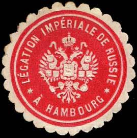 Imperial Legation of Russia at Hamburg Place: Hamburg size: 4 cm